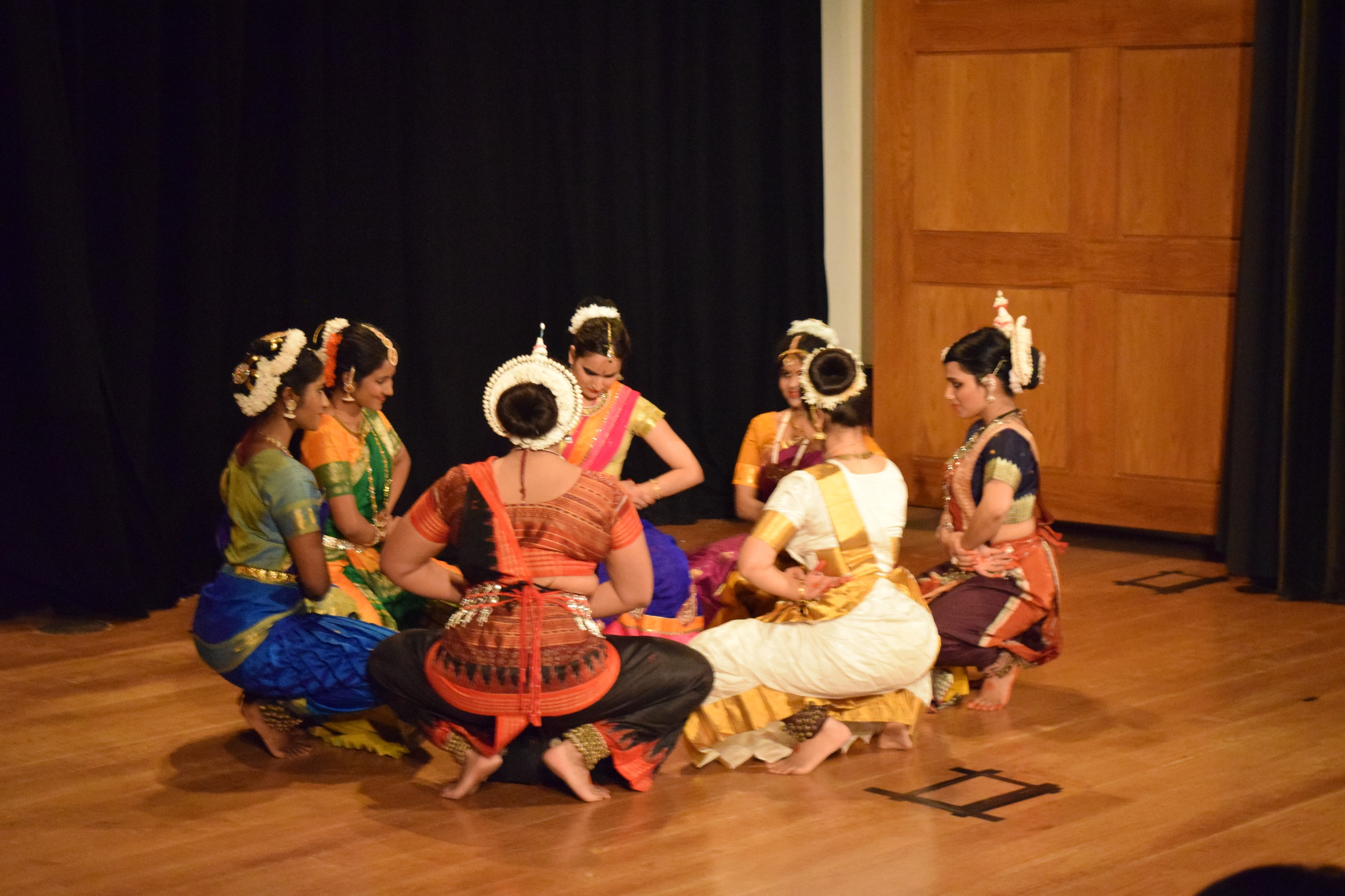 Oxford Odissi Centre performance at Magdalene College, University of Oxford.